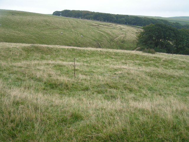 Cairn Circle above Bolehill Clough. Approx. SK084829 - looking southeast across the cairn circle (in the foreground) to the Pennine Bridleway.